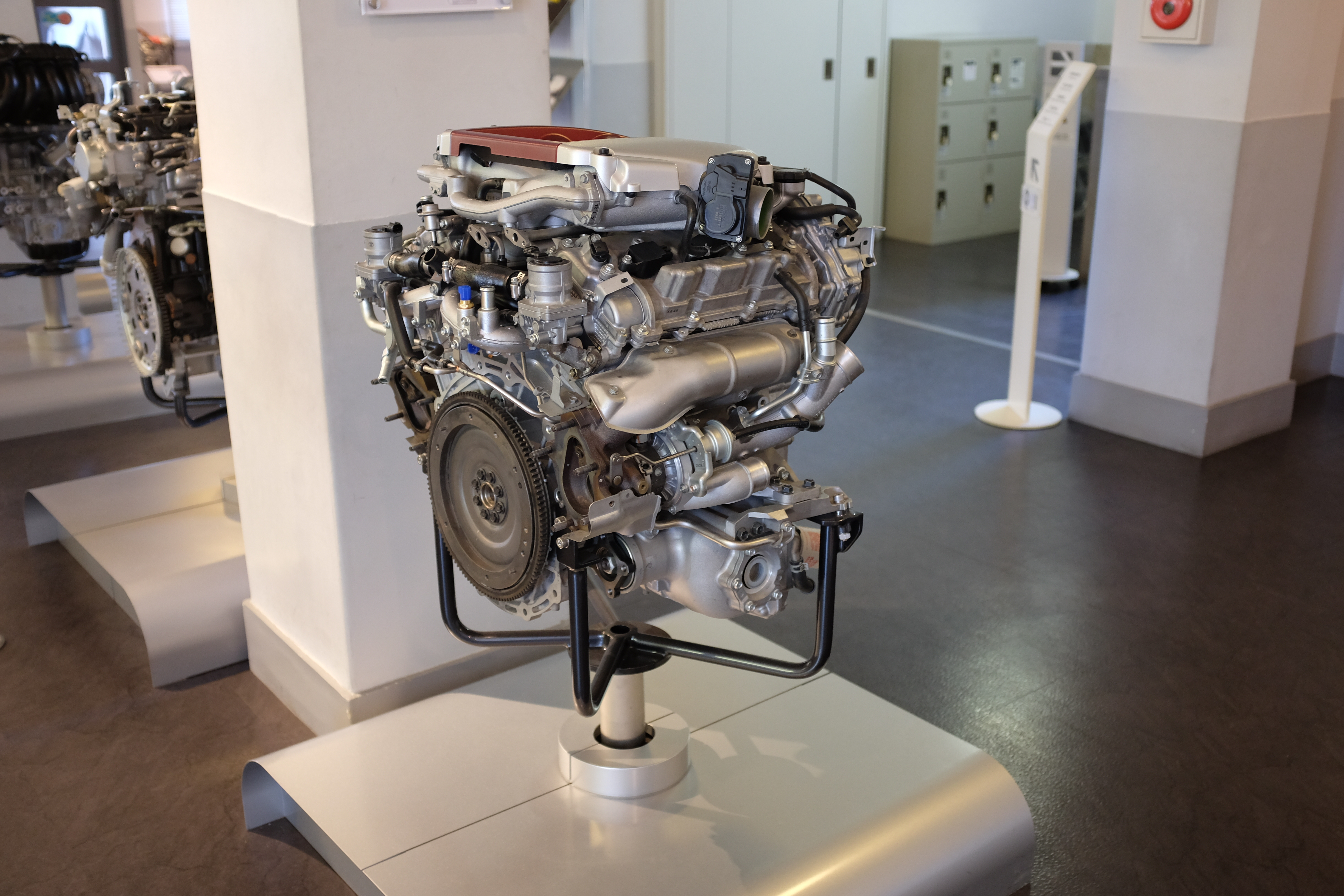 Nissan VR38DETT Engine at Nissan Engine Museum in Yokohama, Japan